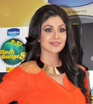 Shilpa Shetty on the sets of Nach Baliye 5. Episode: Deepika Padukone promoting 'Race 2' film